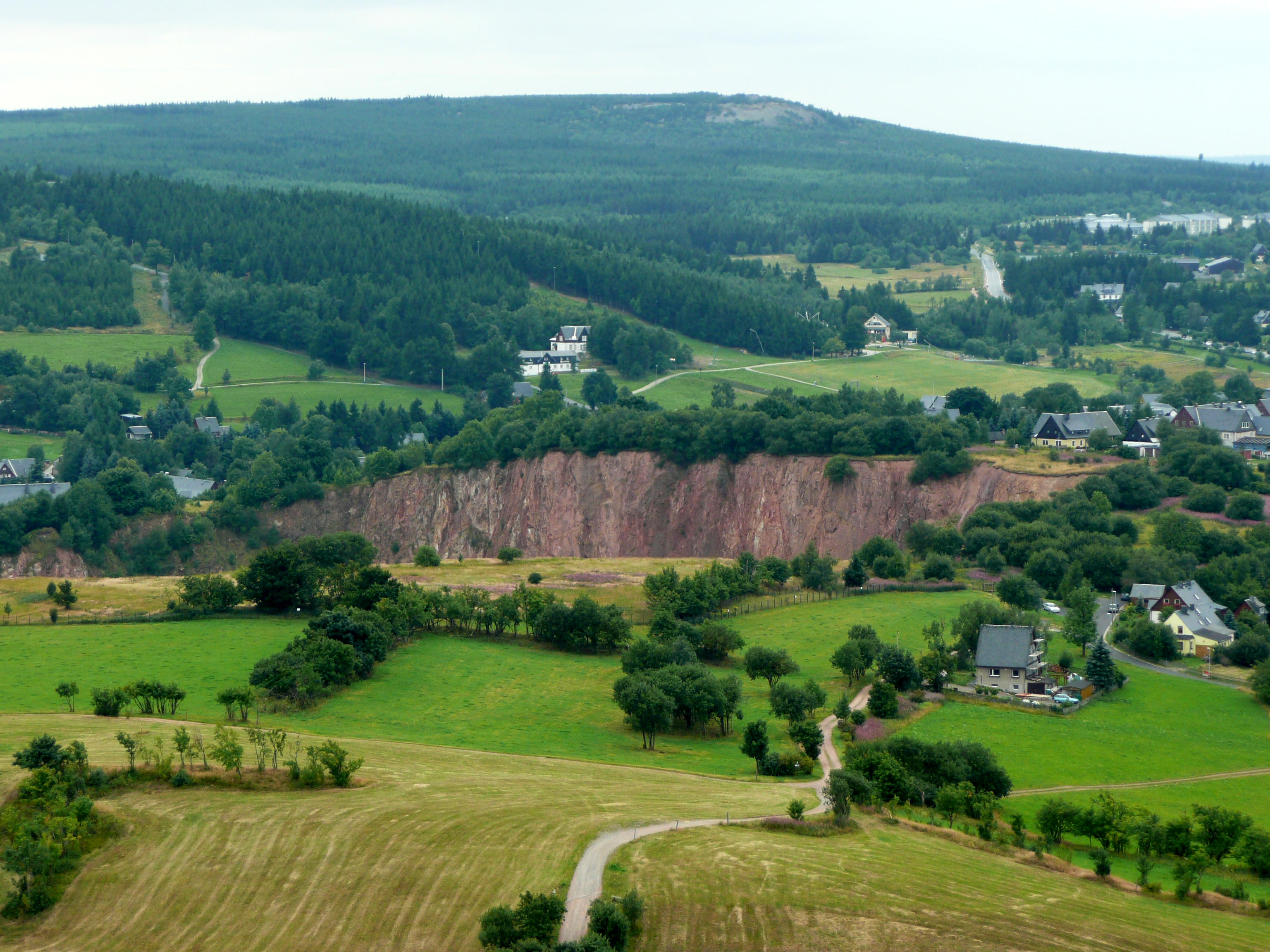 View from the Geisingberg (824 m) towards the Kahleberg (905 m), the highest peak in the german part of the Osterzgebirge.